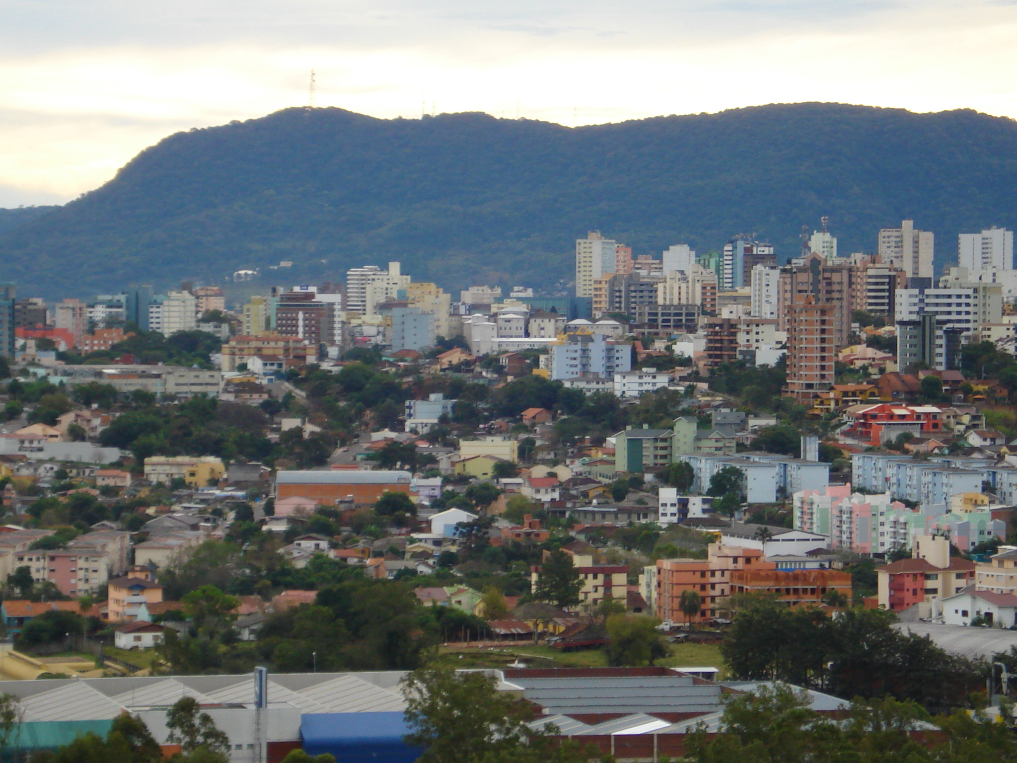 View from a region of the Brazilian city of Santa Maria.